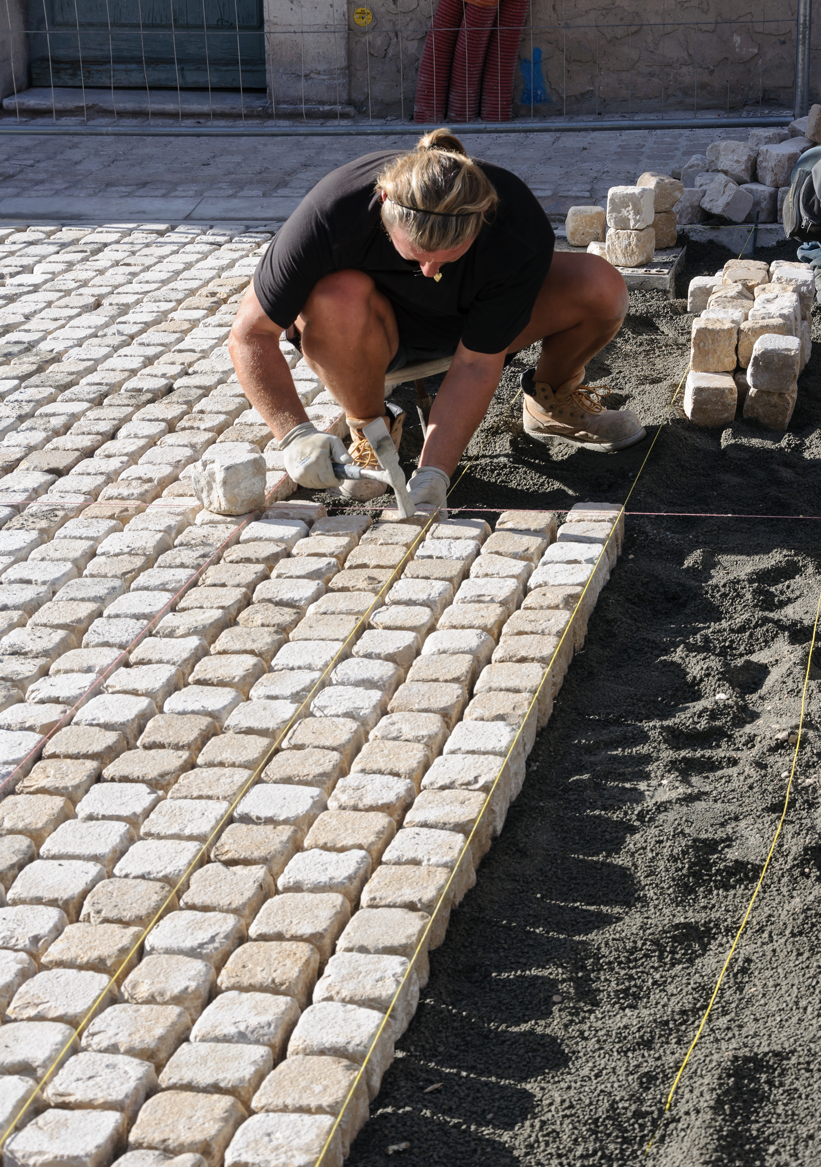 Paving with setts in Vence, Alpes-Maritimes, France